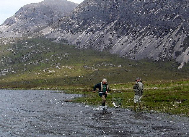 In the net! Angler & Ghillie land a salmon from Loch Stack with Ben Arkle behind